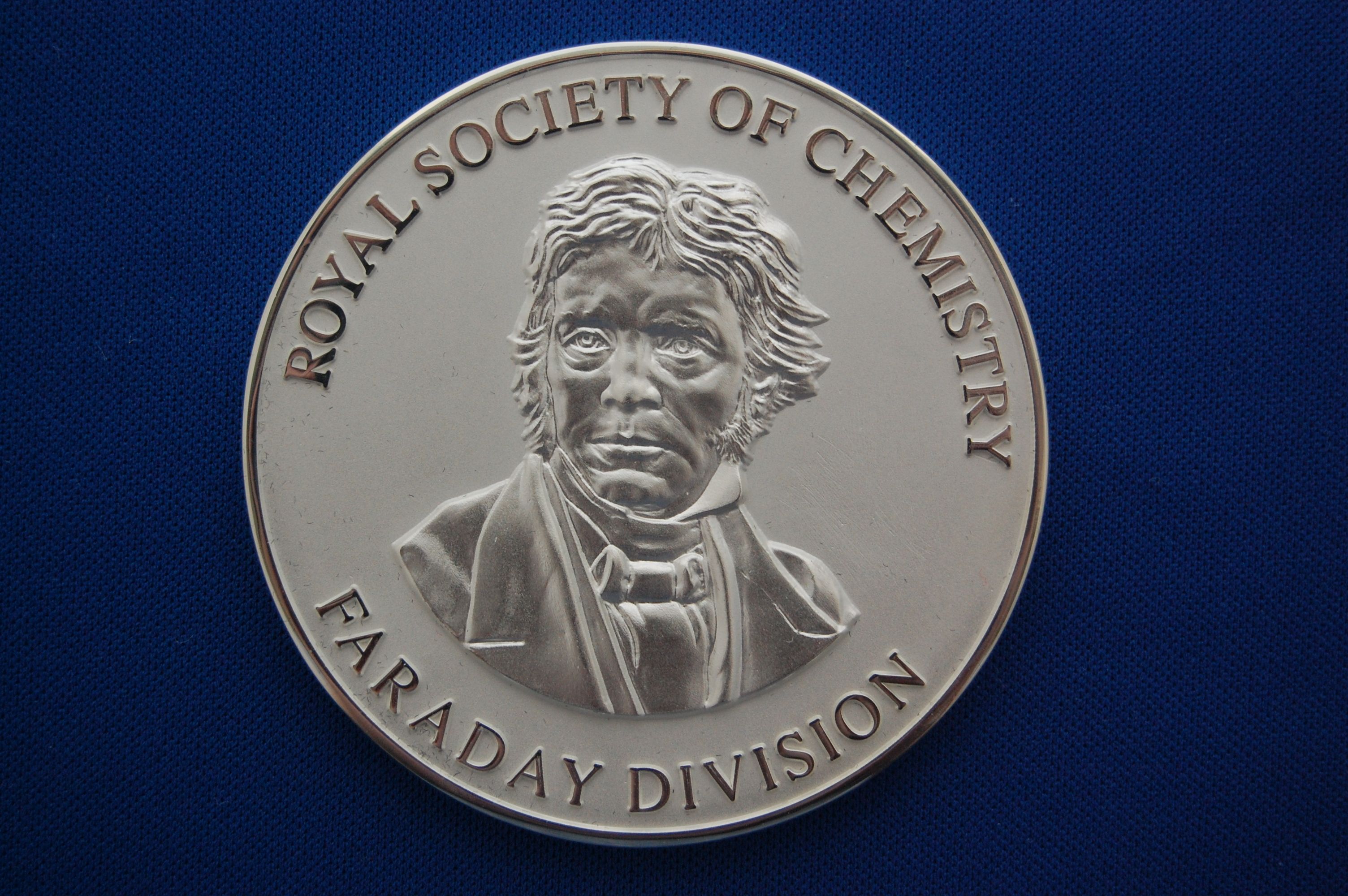 The Royal Society of Chemistry's Liversidge Award - 2014 - obverse